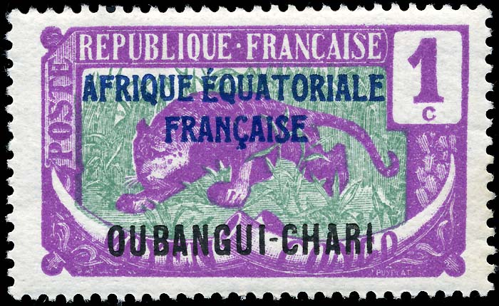 Ubangi-Shari 1c stamp of 1924